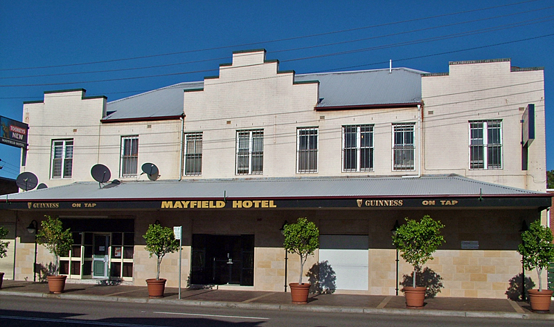 Mayfield Hotel. Mayfield, New South Wales, Australia